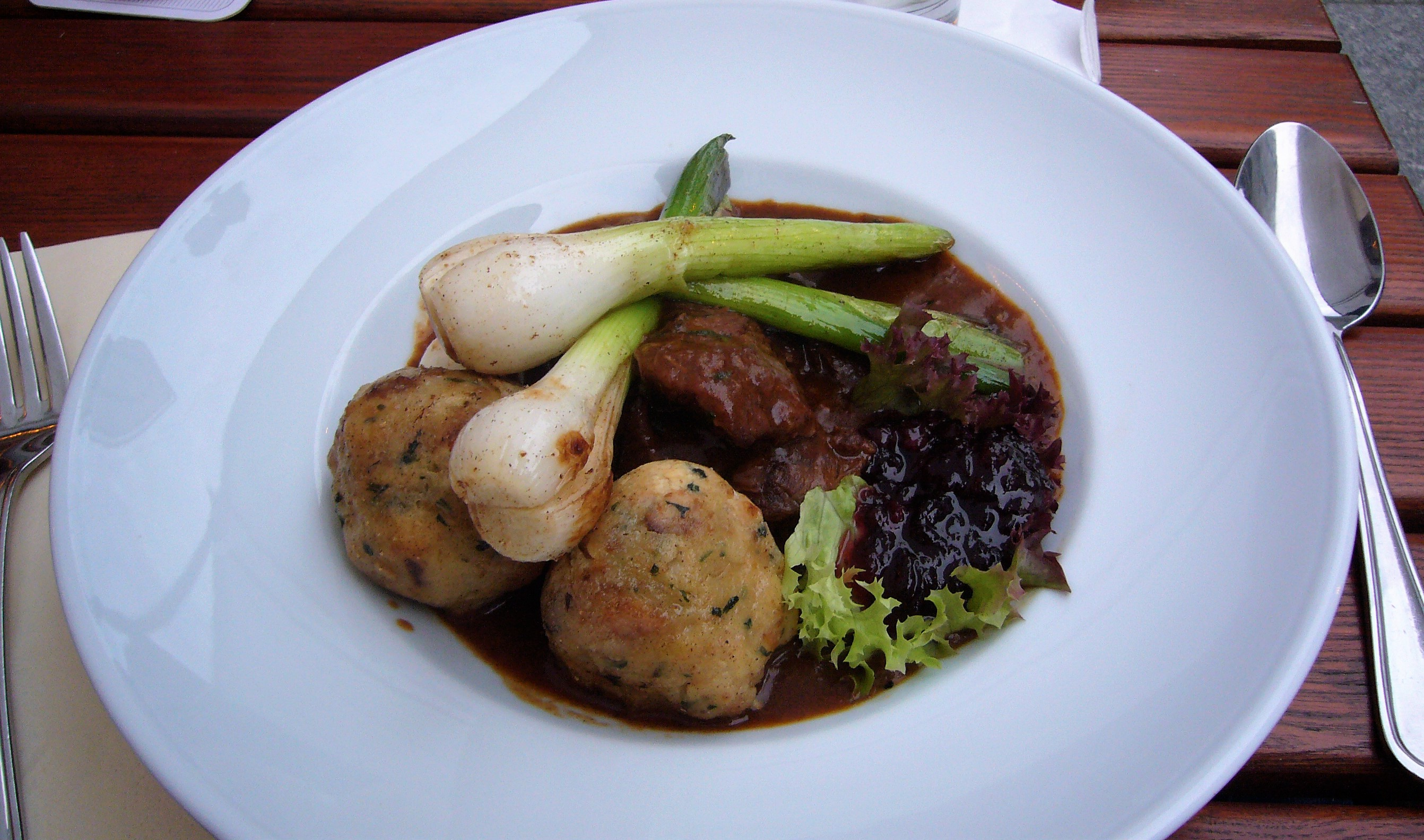 Deer goulash, dumpling, leeks, lingonberry sauce.